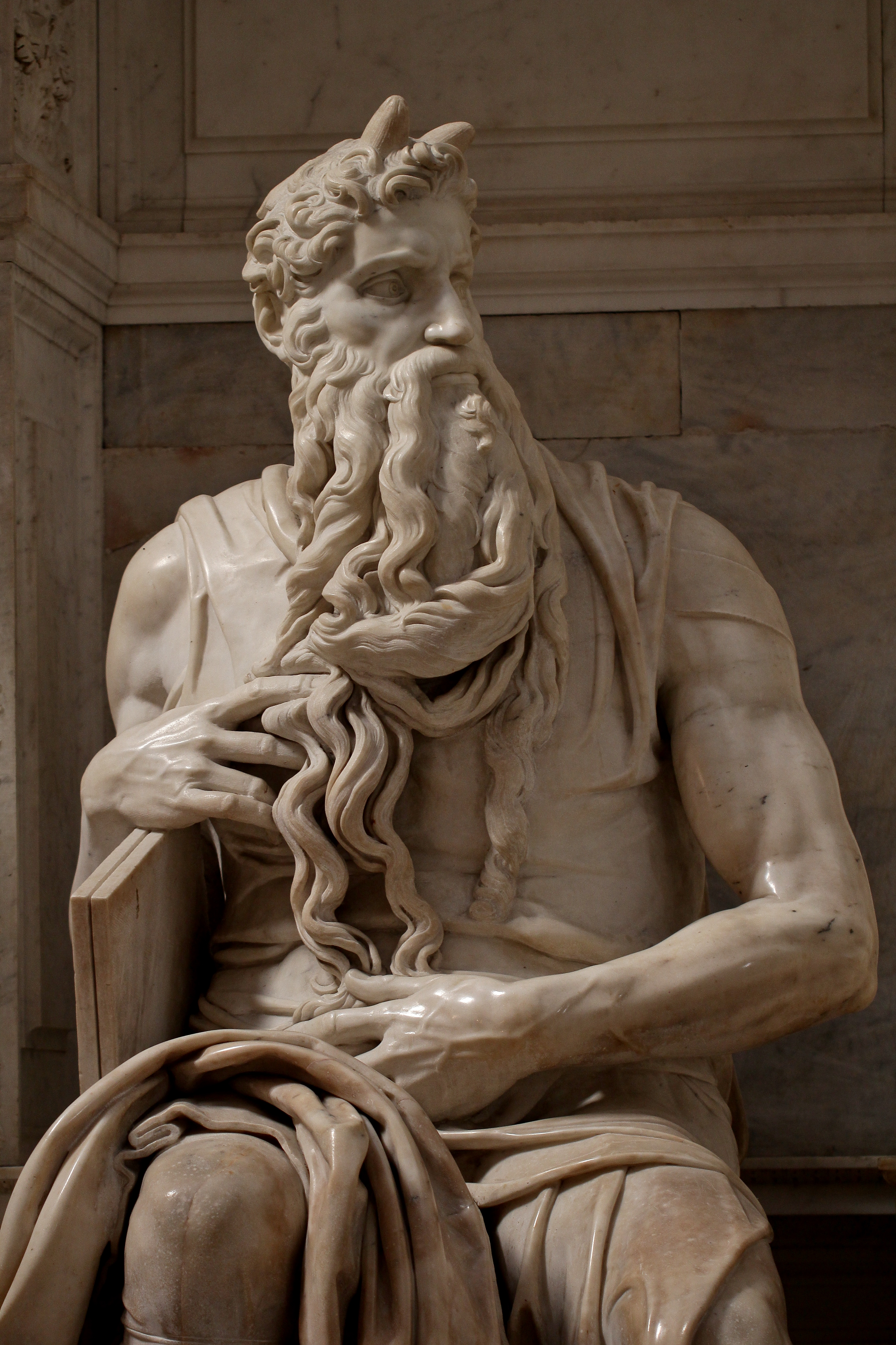 Moses by Michelangelo Buonarroti, Tomb (1505-1545) for Julius II, San Pietro in Vincoli (Rome)